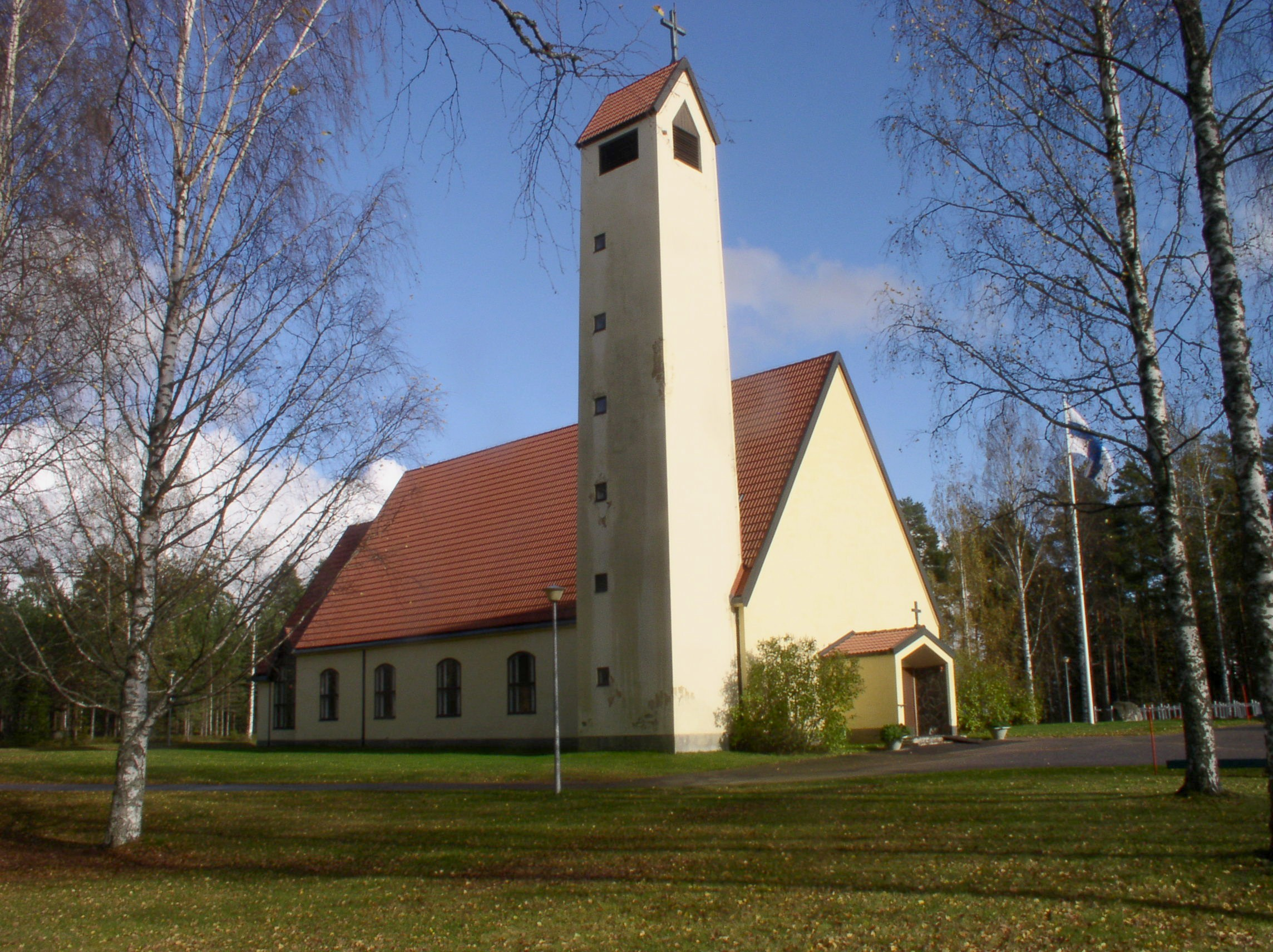 Kesälahti church in Kesälahti, Finland.